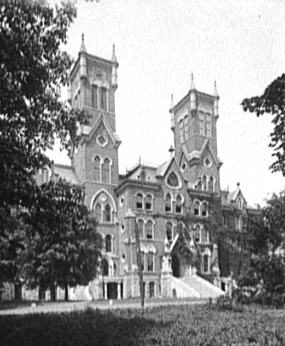 Library of Congress Image, Old Main, Vanderbilt University, Nashville, Tenn.. CREATED/PUBLISHED c1901. NOTES "533" on negative. Detroit Publishing Co. no. 013561.